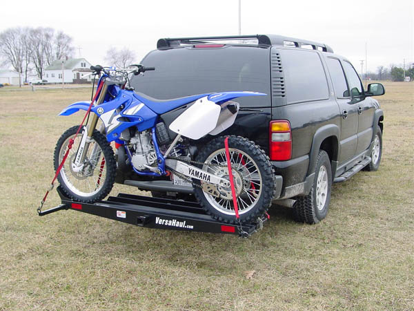 A hitch free motorcycle carrier in use.